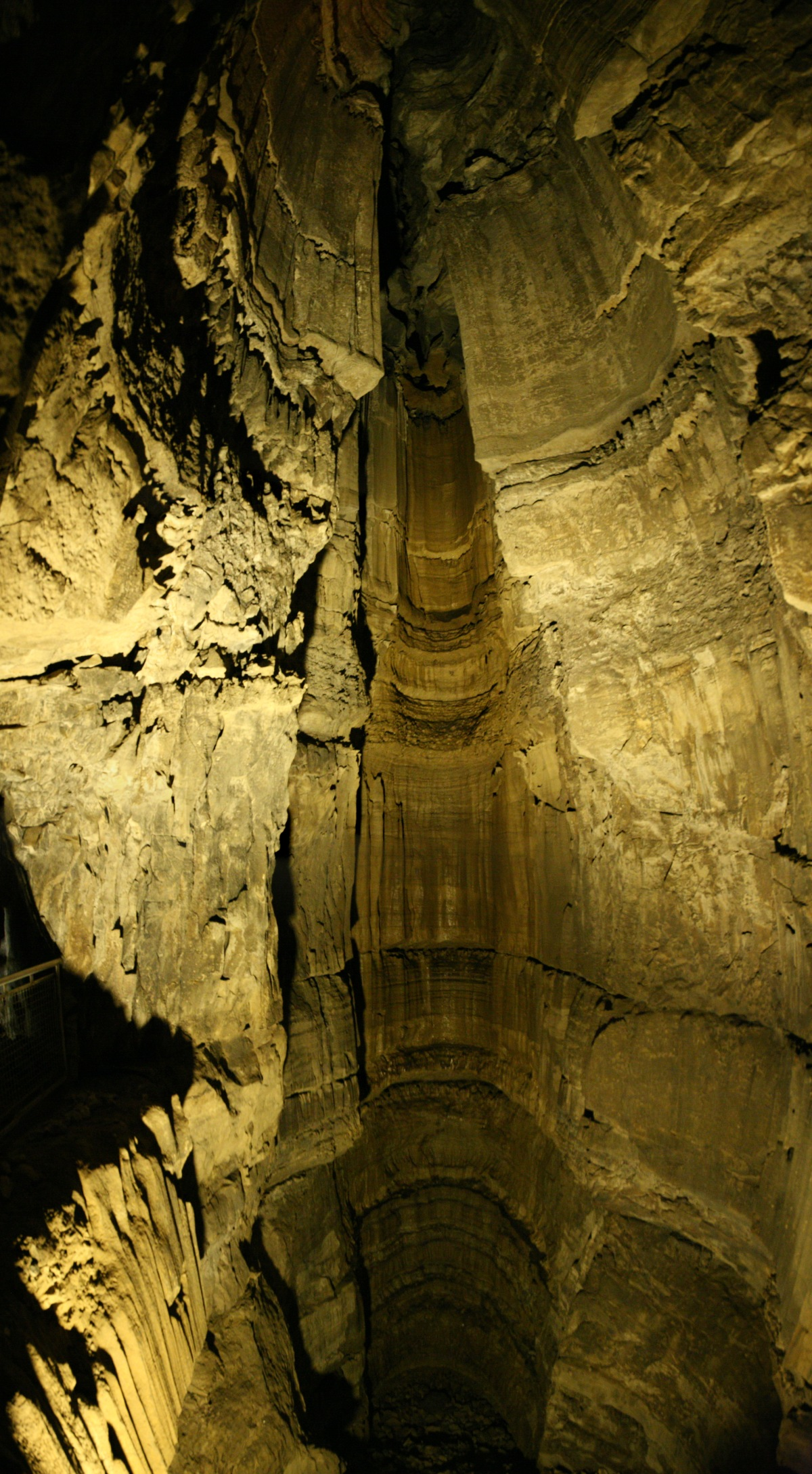 A vertical passage next to Mammoth Dome in Mammoth Cave